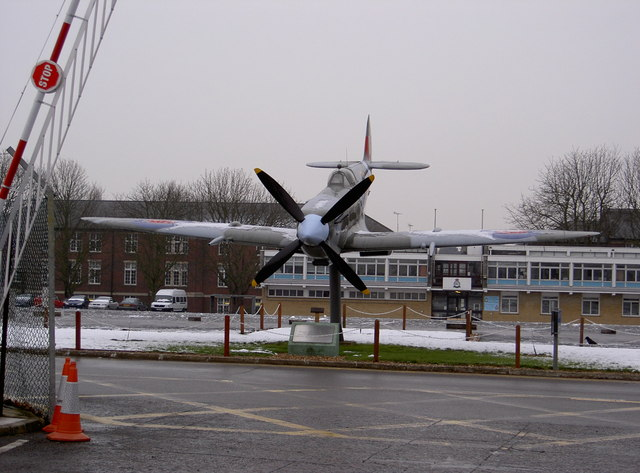 Spitfire at RAF Uxbridge Full size model Spitfire, sited at the entrance to RAF Uxbridge.